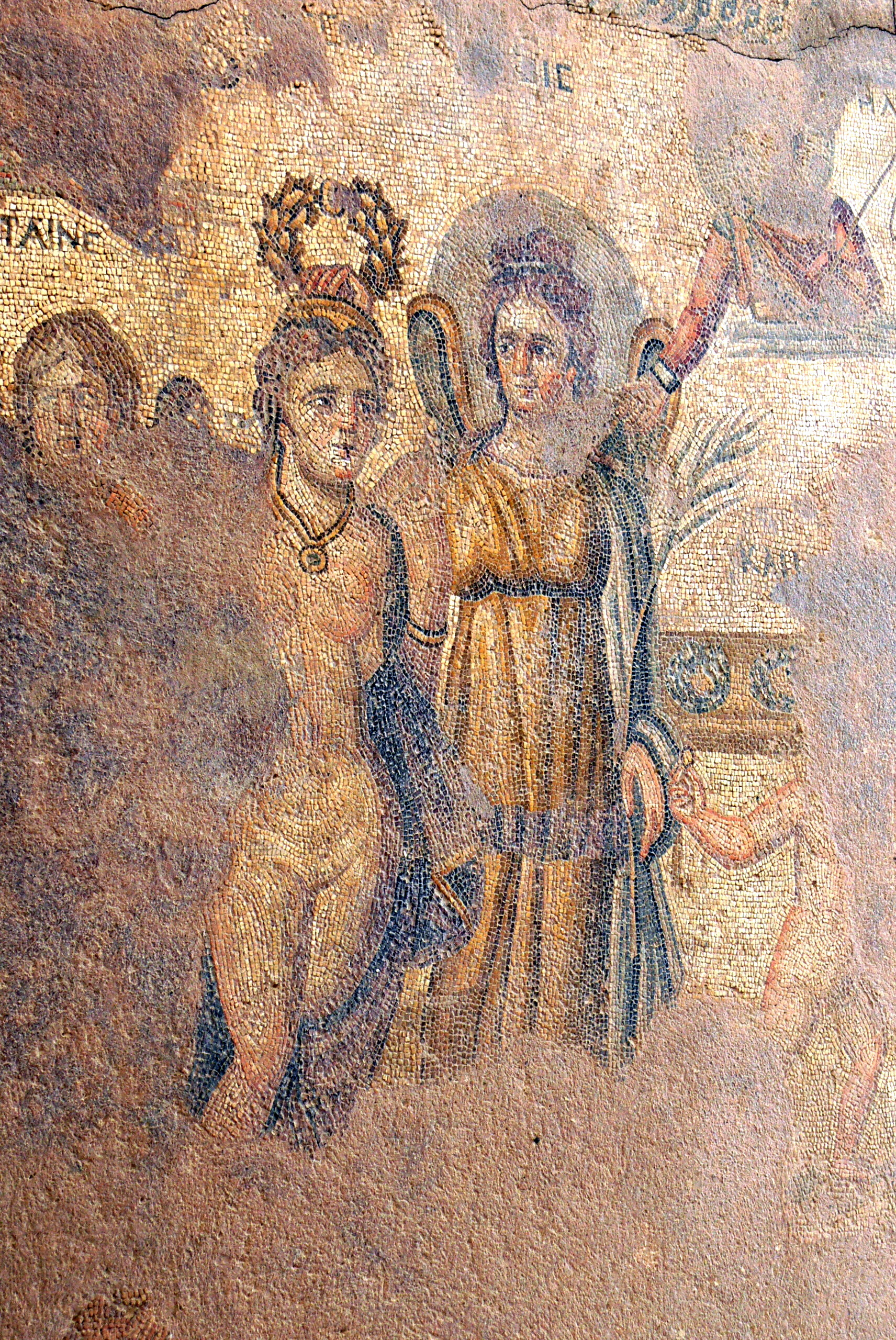 Paphos Archaeological Park. House of Aion: Beauty contest between Cassiopeia and the nereids - Cassiopeia crowned by Krisis ( Allegory of judgment ) ( detail ).